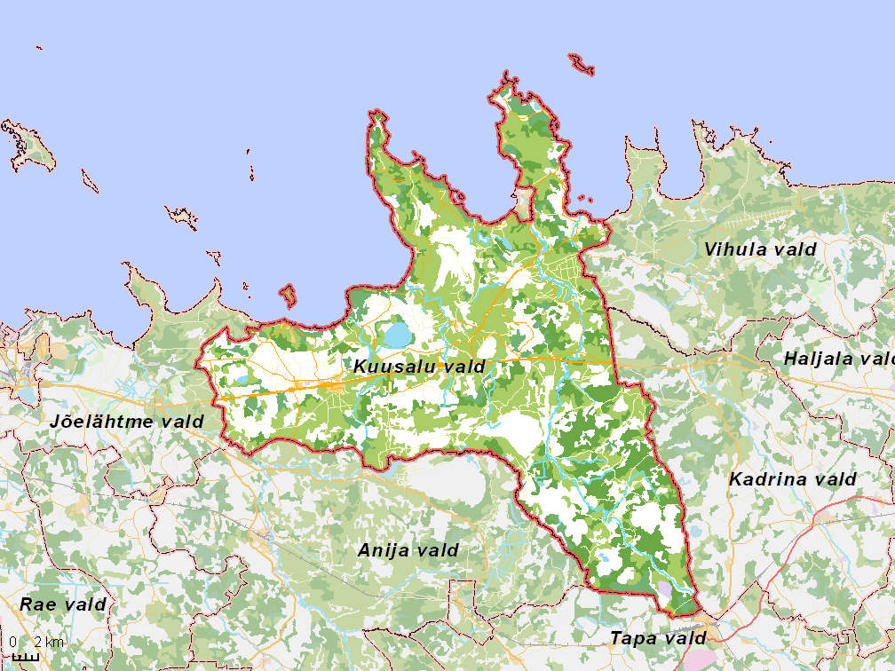 Map of municipality in Estonia